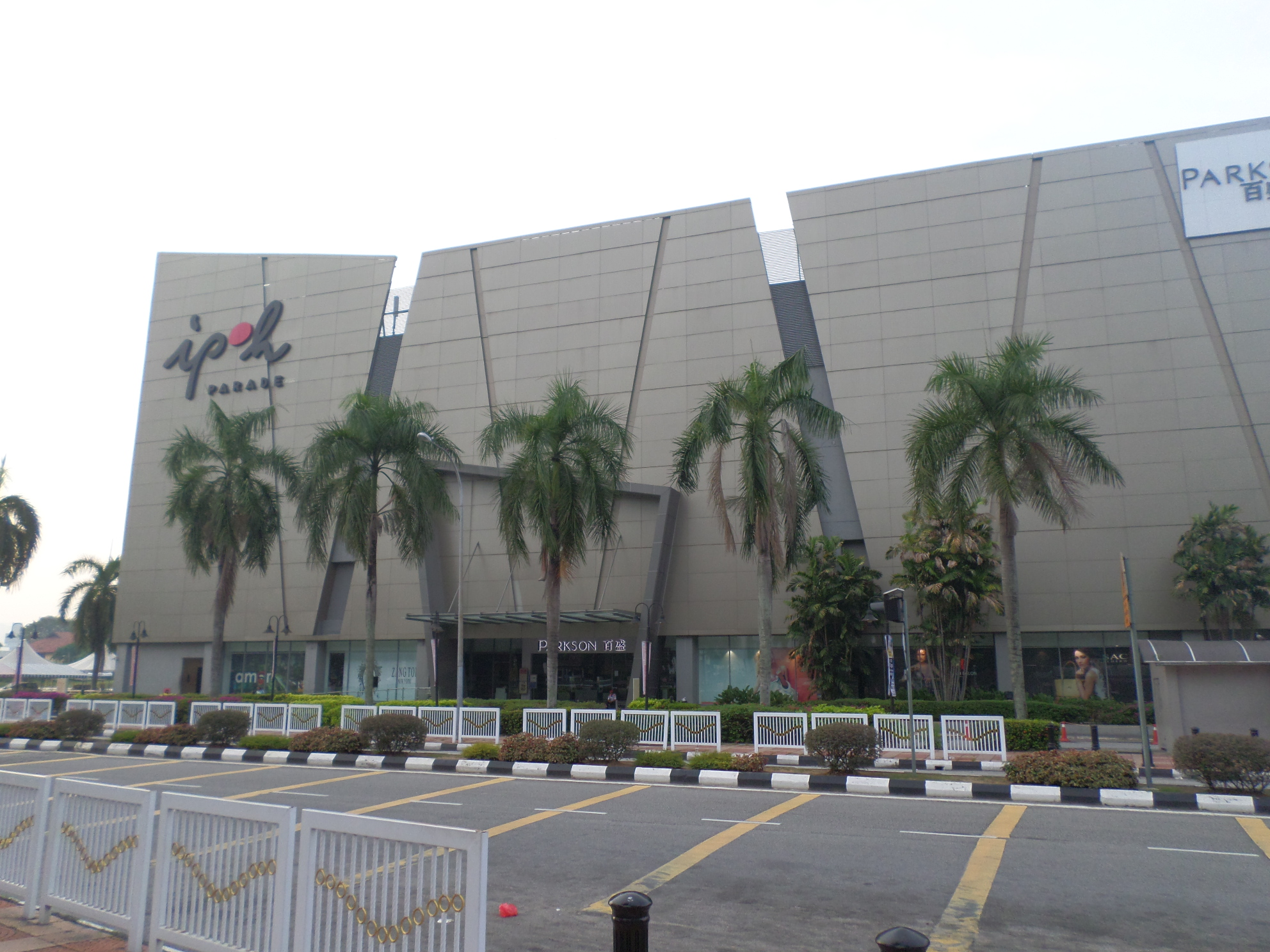 Ipoh Parade, Ipoh, Kinta, Perak, Malaysia